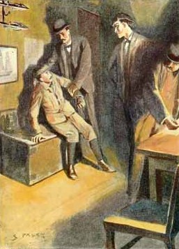 Sherlock Holmes in "The Adventure of Black Peter."